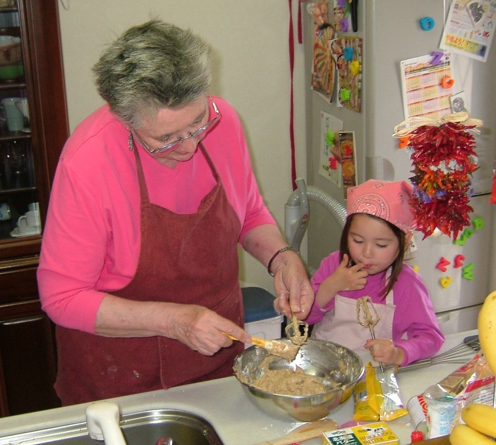 Grandma (grandmother) bakes cookies with her granddaughter